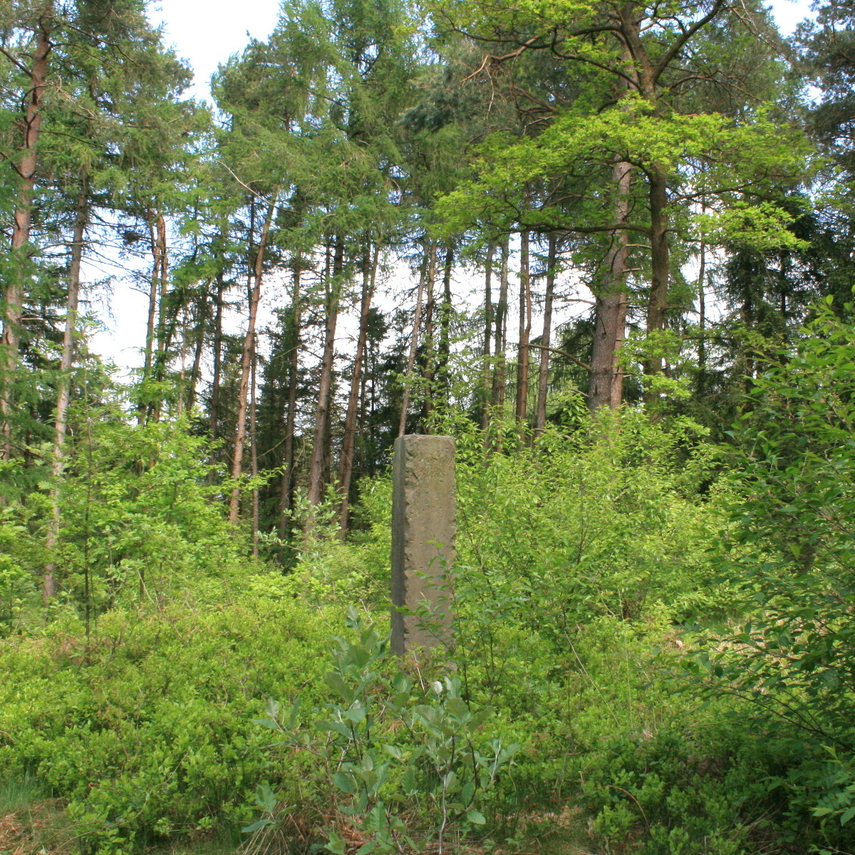 This stone pillar in Garlstedt was erected in 1828 for the geodetic survey of the Kingdom of Hanover by Carl Friedrich Gauss. The four sides, near the top have inscriptions "Königl. / Hannov. /. Landes / Vermessg 1828".